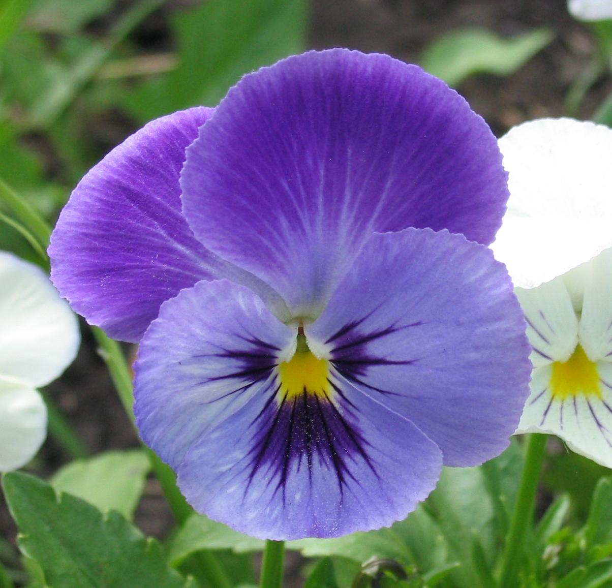 Pansy flowers